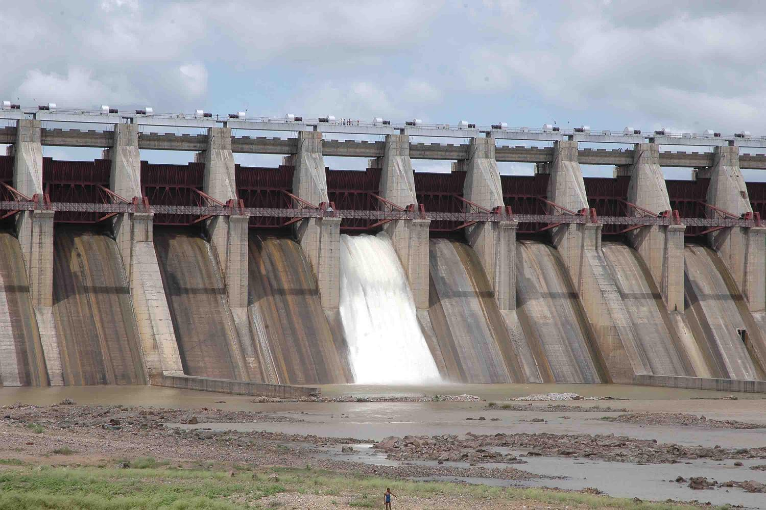 View of Bansagar Dam from down stream